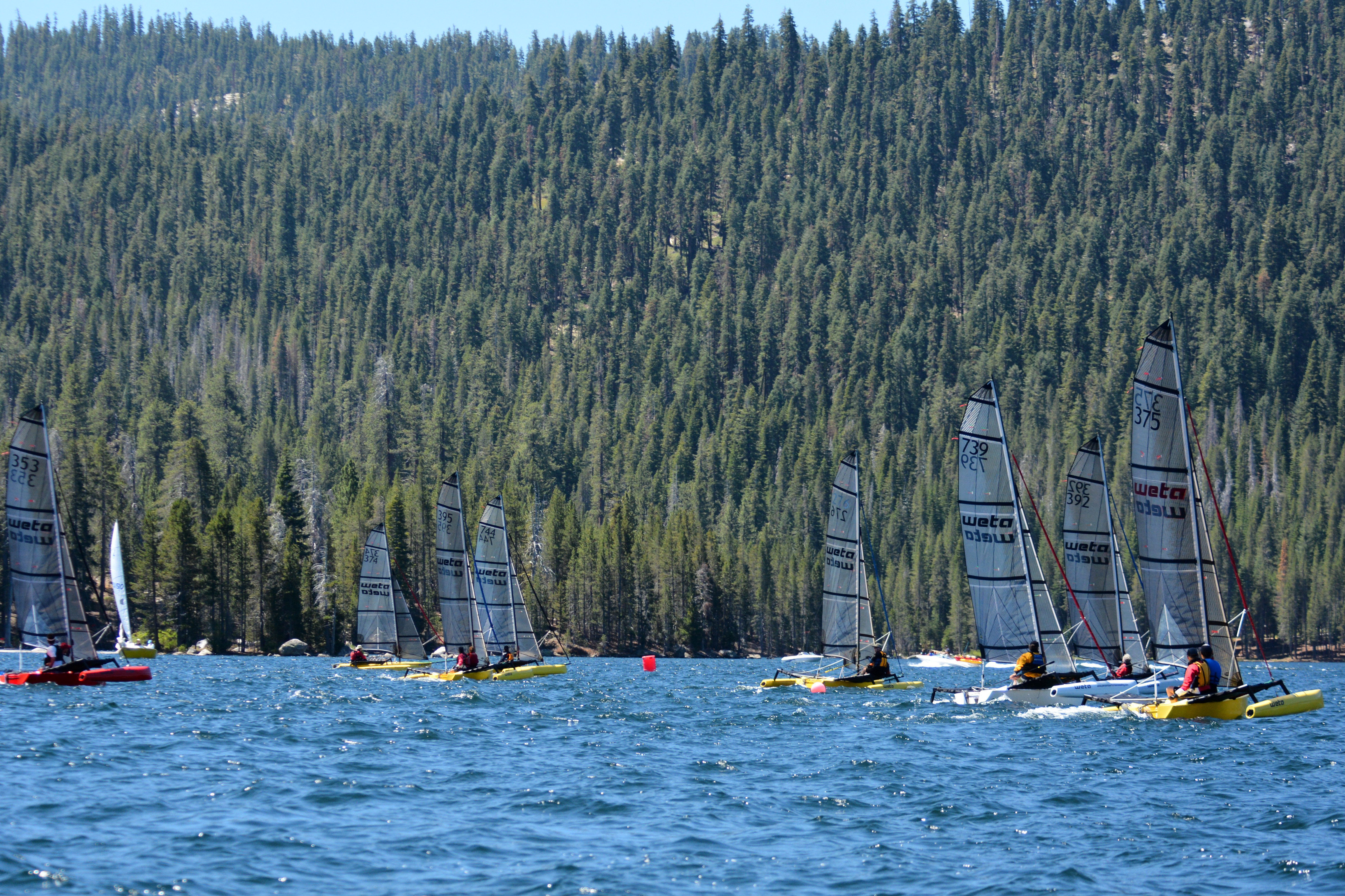 Weta race start Huntington Lake